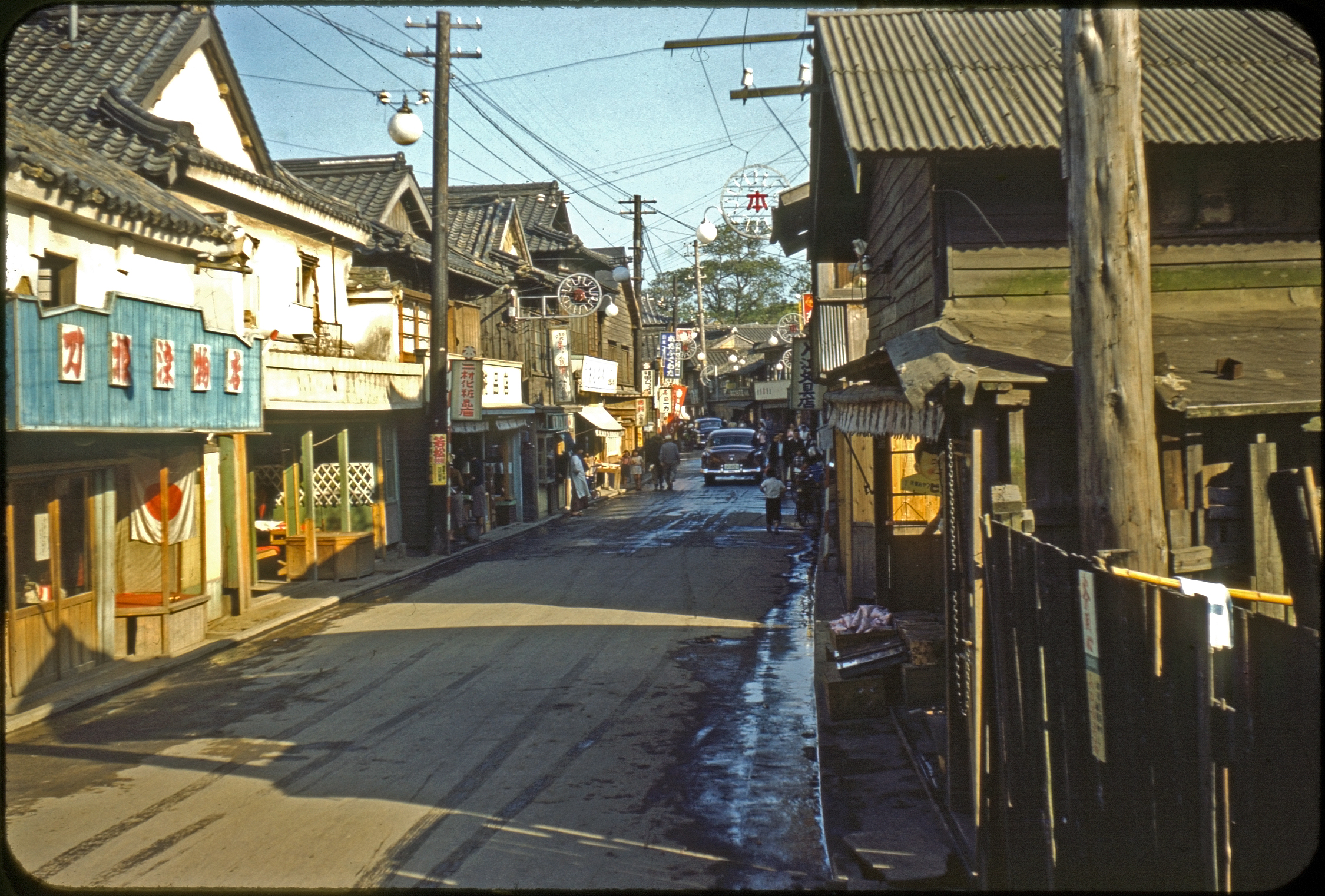 Side street in downtown Ashiya-machi. New scan from a 57-year-old Kodachrome slide.